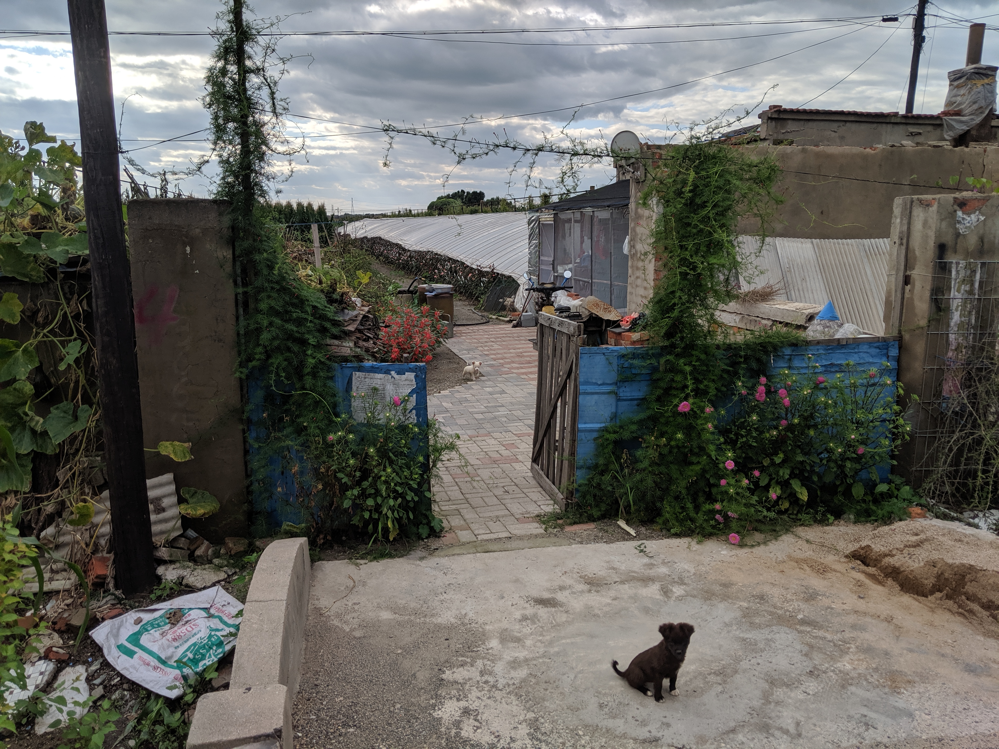 Wuwu village in Shenbei District, Shenyang, Liaoning, China. The African swine fever outbreak in 2018 was originated here. See Category:Wuwu for more details.